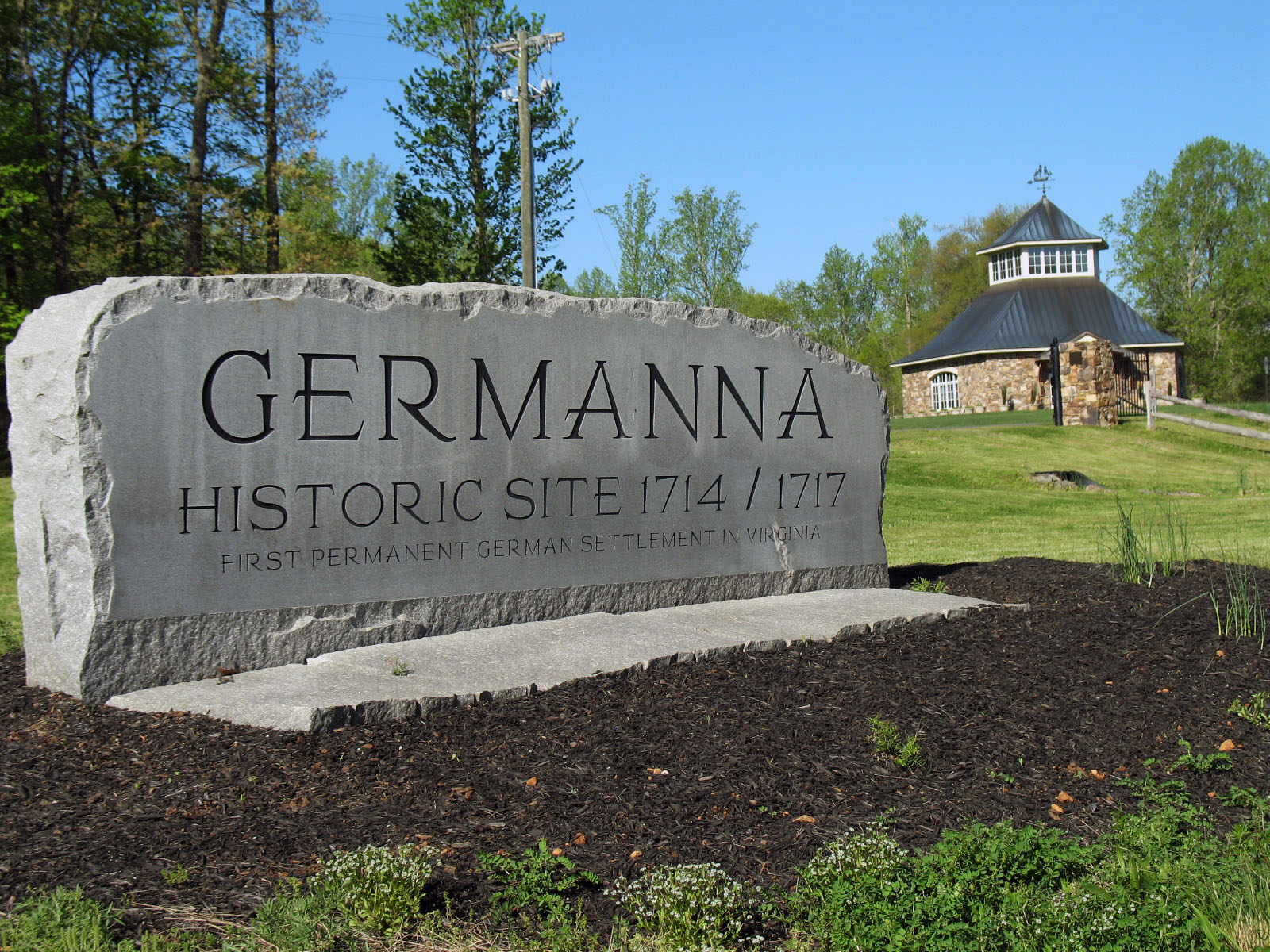 Locust Grove Virginia, Route 3 at Rapidan River